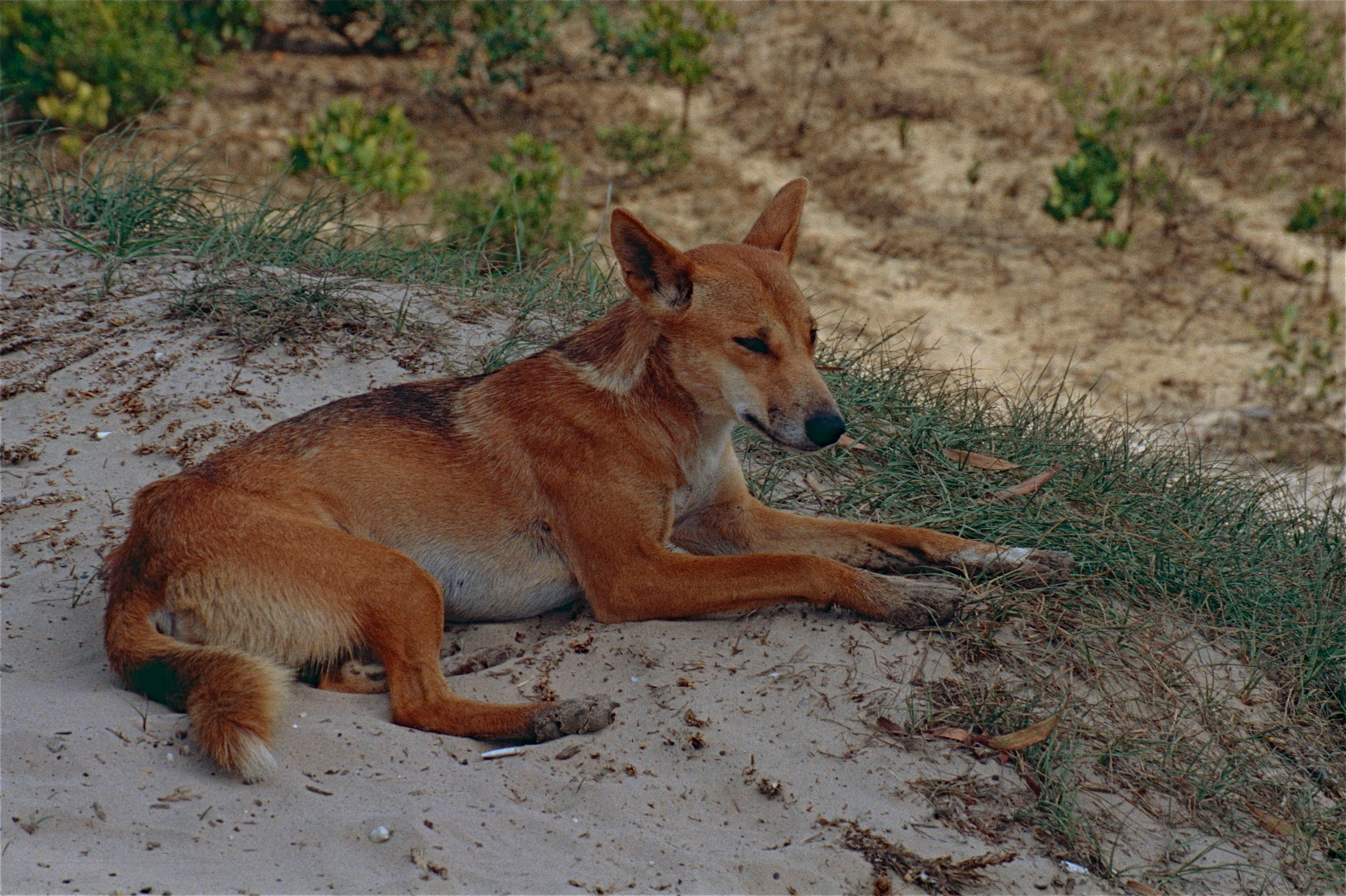 Fraser Island, South Queensland, AUSTRALIA Scanned Slide from Dec 2000